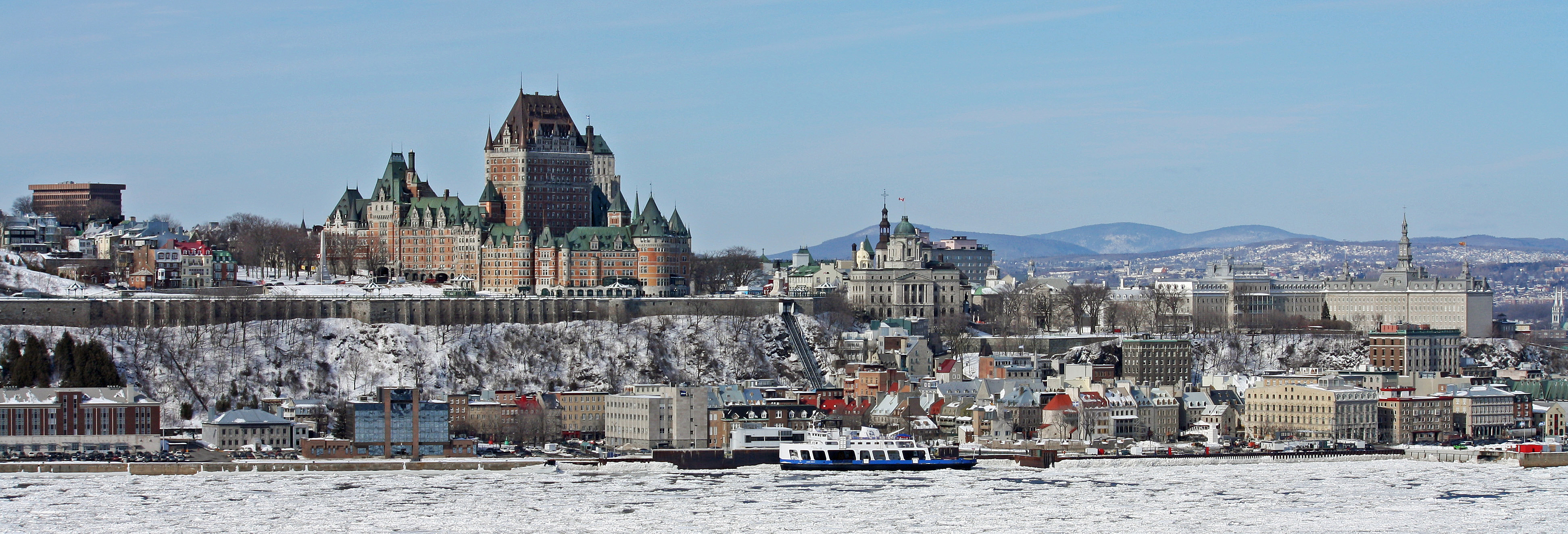 Québec City seen from Terrasse de Lévis, Canada